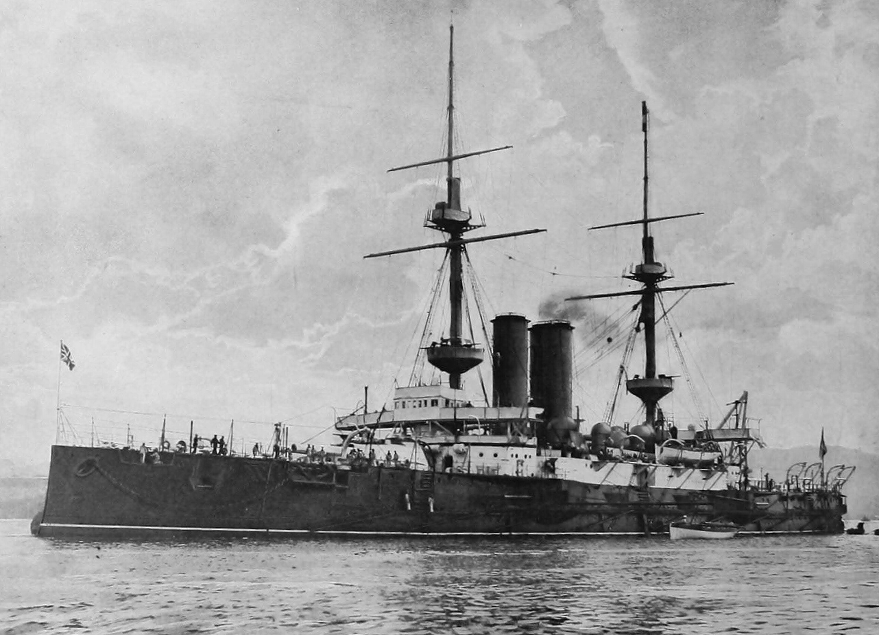 We have here a picture of the great battleship HMS Ocean, one of the newest and most powerful vessels in the Mediterranean Fleet (1901). Of 12950 tons displacement, steaming eighteen knots an hour, armoured over two-thirds of her length, carrying four twelve-inch guns, twelve quick-firing 100 pounders (six-inch), eighteen 12-pounders. And many smaller guns, the Ocean is one of the most powerful British battleships ever launched. Her consorts are the Canopus, Goliath, Glory. Albion, and Vengeance, all of which are practically identical with the Ocean in essential features.